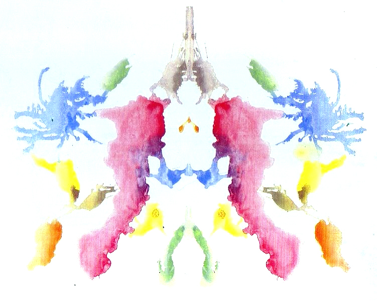 the tenth blot of the Rorschach inkblot test